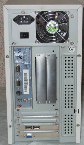 Iyonix (back).The power supply is at the top with fan and on/off switch. Below the fan are the 2 Podule Bus openings (I don't have a backplane fitted, so no podules). Next to them are the 2 x serial ports, the network port and the audio sockets. At the bottom are the 4 PCI slots, one has the 2 x USB ports the other is the GeForce 2 MX video card.